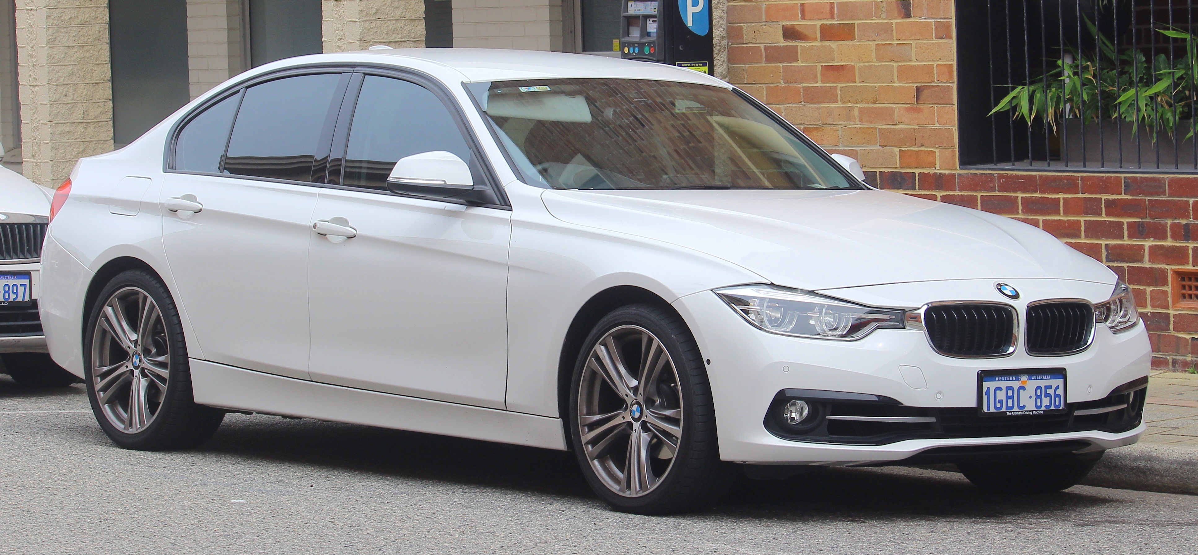 2016 BMW 318i (F30 LCI) Sports Line sedan. Photographed in Fremantle, Western Australia, Australia.